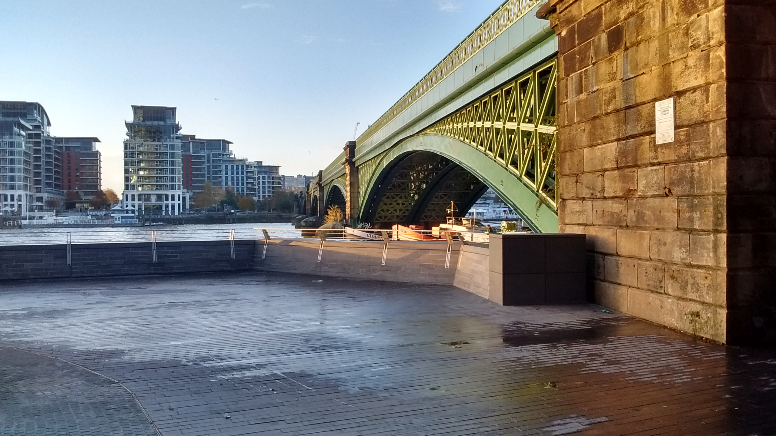 Battersea railway bridge, also known as the Cremorne Bridge, seen from a new riverside walkway opened in 2017. The open area in the foreground has been maintained as the proposed landing point of a new footbridge that would run parallel to it, the Diamond Jubilee Bridge.